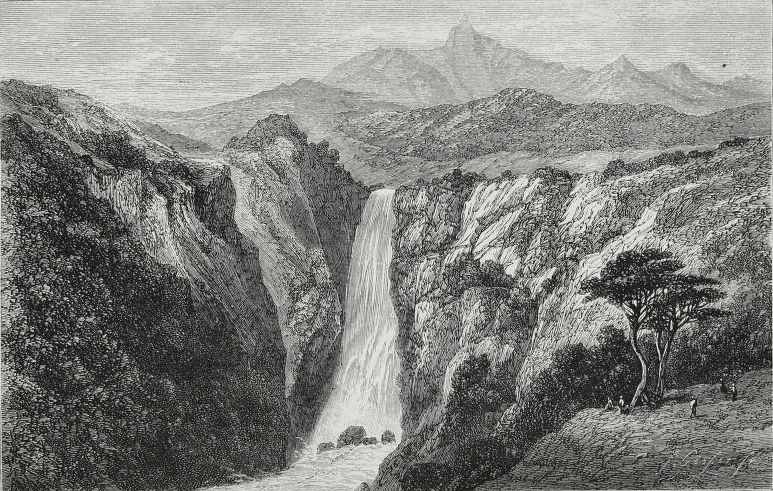 Chamarel Falls in 1873. Picture is published in "Sub-Tropical Rambles in the land of the Aphanapteryx" by Nicholas Pike (1817-1905)